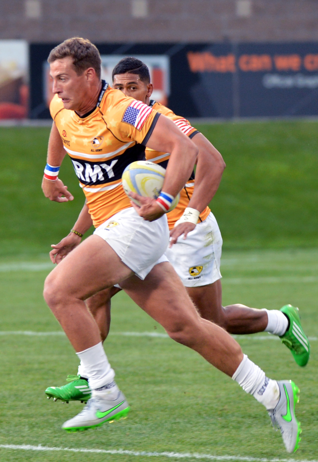 U.S. Army World Class Athlete Program rugger 1st Lt. William Holder, a recent bronze medalist for Team USA at the Pan American Games, scores a try during All-Army's 26-5 victory over All-Coast Guard at the 2015 Armed Forces Rugby 7s Championship Tournament on Friday at Infinity Park in Glendale, Colorado. U.S. Army photo by Tim Hipps, IMCOM Public Affairs